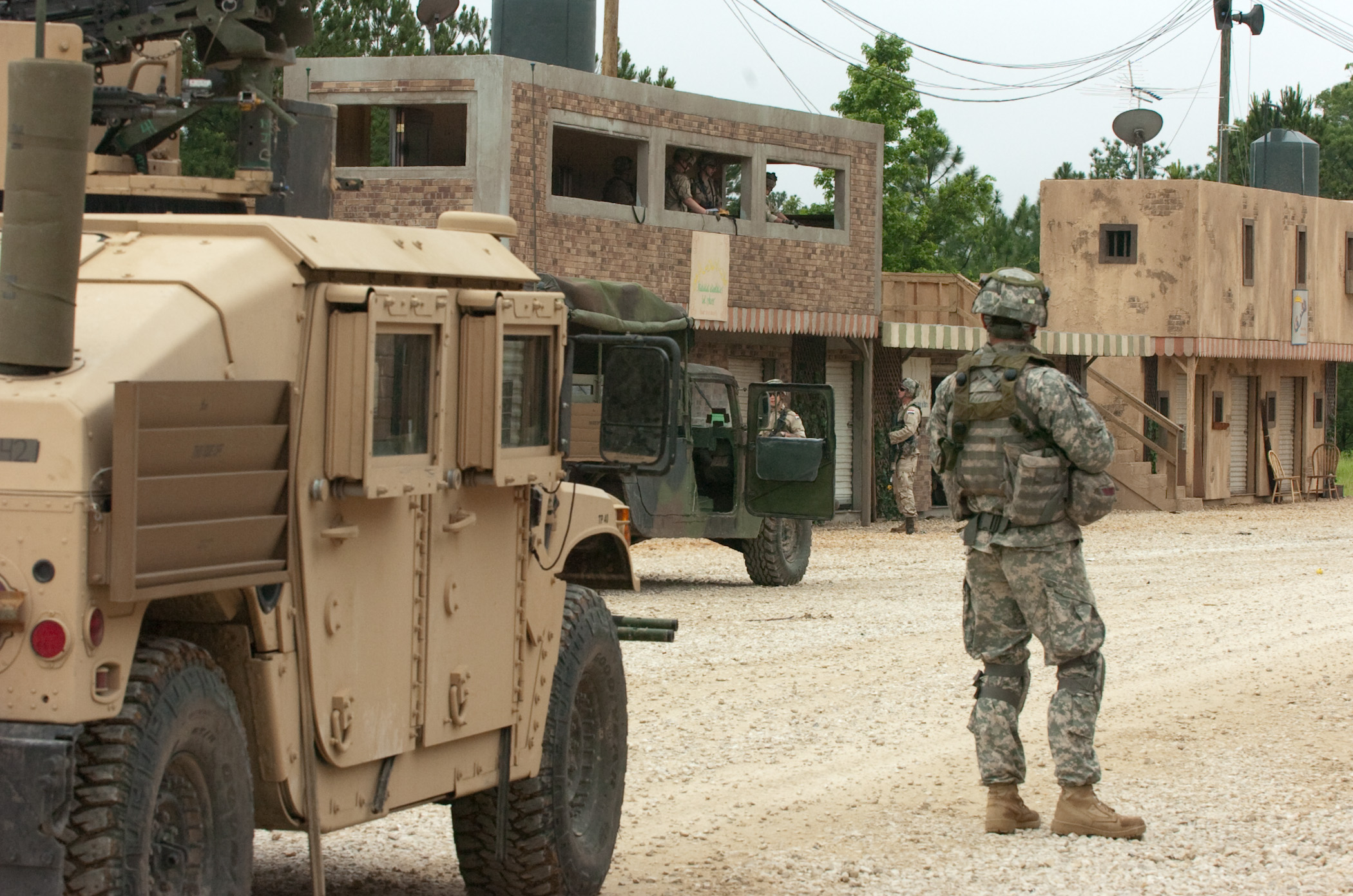 U.S. Army Staff Sgt. Chris Kompier provides backup security next to a gun truck for Iraqi army role player troops engaged in clearing the fictional Iraqi village of Sadiq during a training exercise at the Joint Readiness Training Center, Fort Polk, La., May 12, 2009. U.S. Army photo by Spc. Michael J. MacLeod